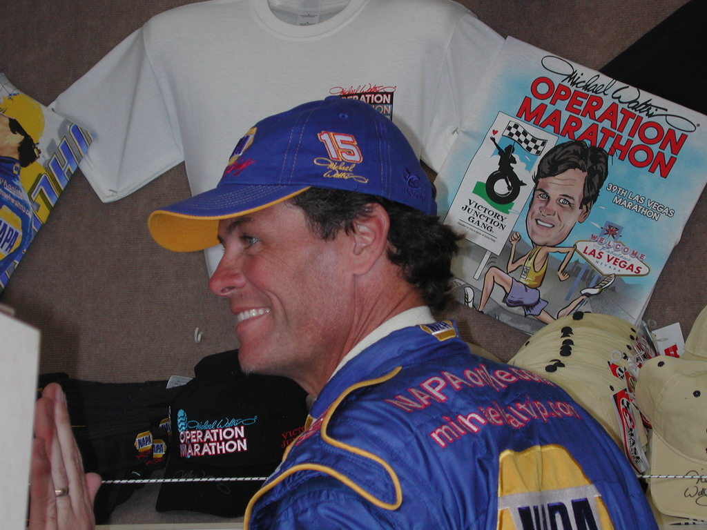 Michael Waltrip signing autographs from his trailer